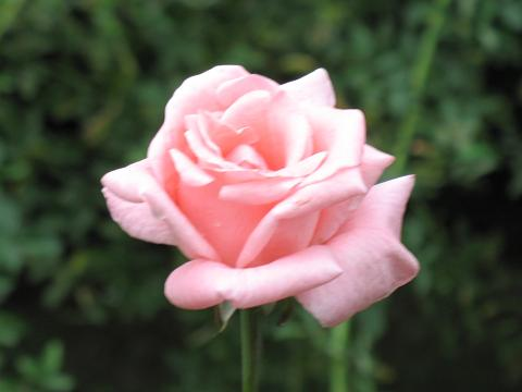 Description: Rosa - Source: own work - Location: Brooklyn Botanic Garden, New York - Author: self, User:Stavenn